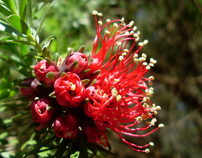 Kunzea baxteri